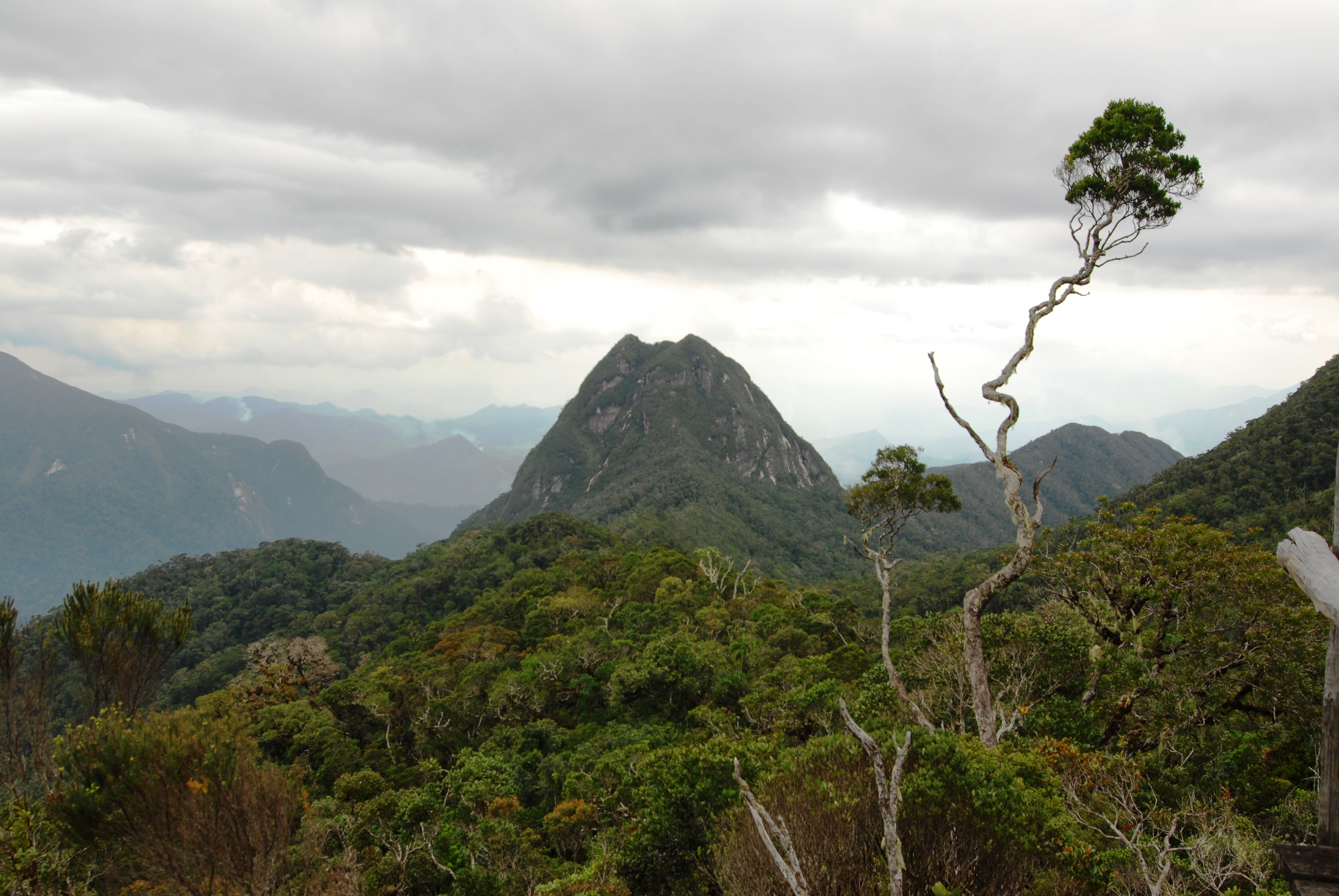 The view from Camp 3 (Camp Simpona) at Marojejy National Park, Madagascar.